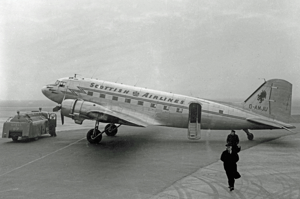 Douglas C-47 Dakota of Scottish Airlines at Manchester Aitport in 1952.